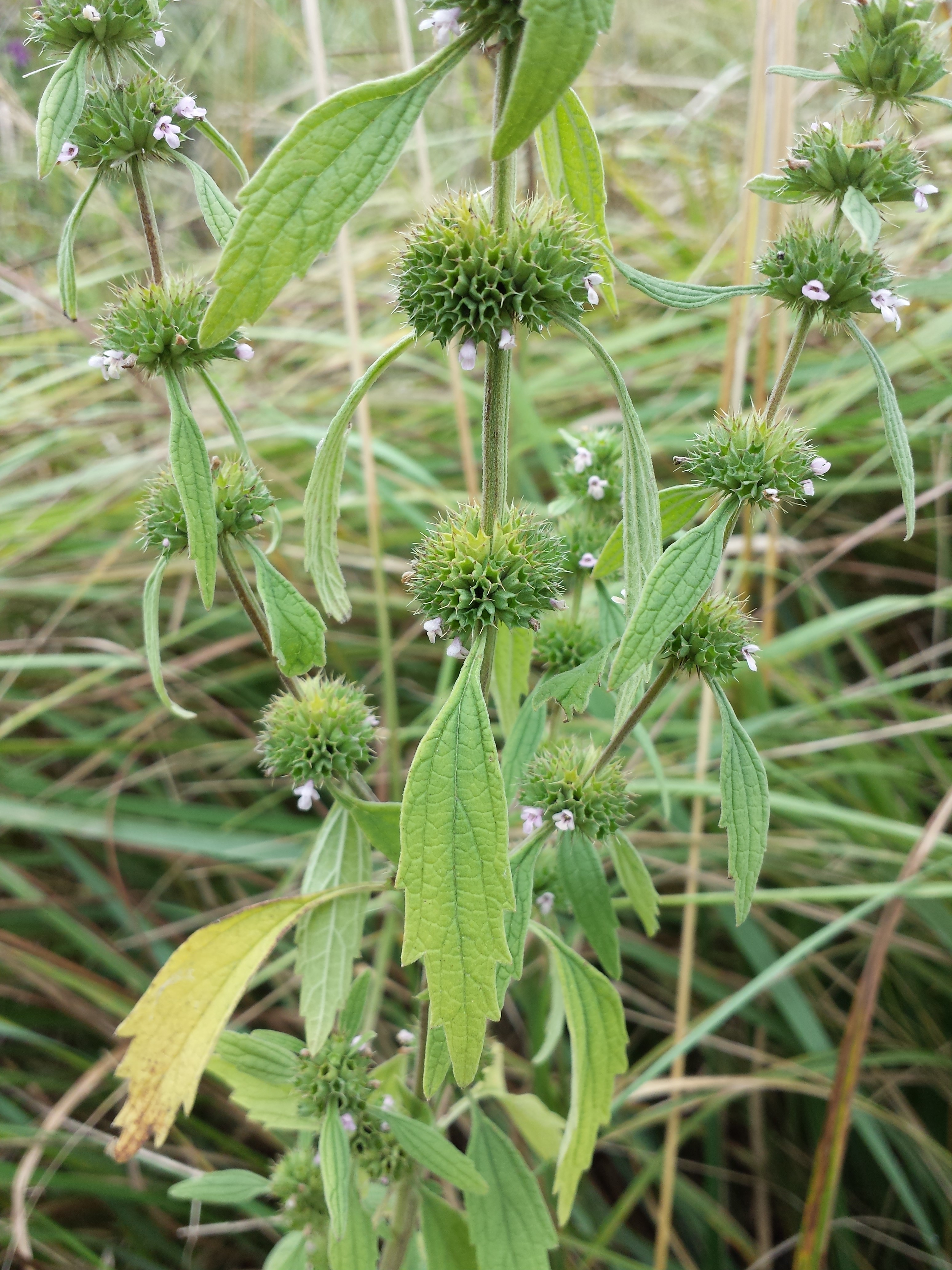 Inflorescence Taxonym: Leonurus marrubiastrum ss Fischer et al. EfÖLS 2008 ISBN 978-3-85474-187-9 (det. W. Adler 2015-09-05) Location: Erlwiesen Bernhardsthal, district Mistelbach, Lower Austria - ca. 160 m a.s.l. Habitat: wet meadow